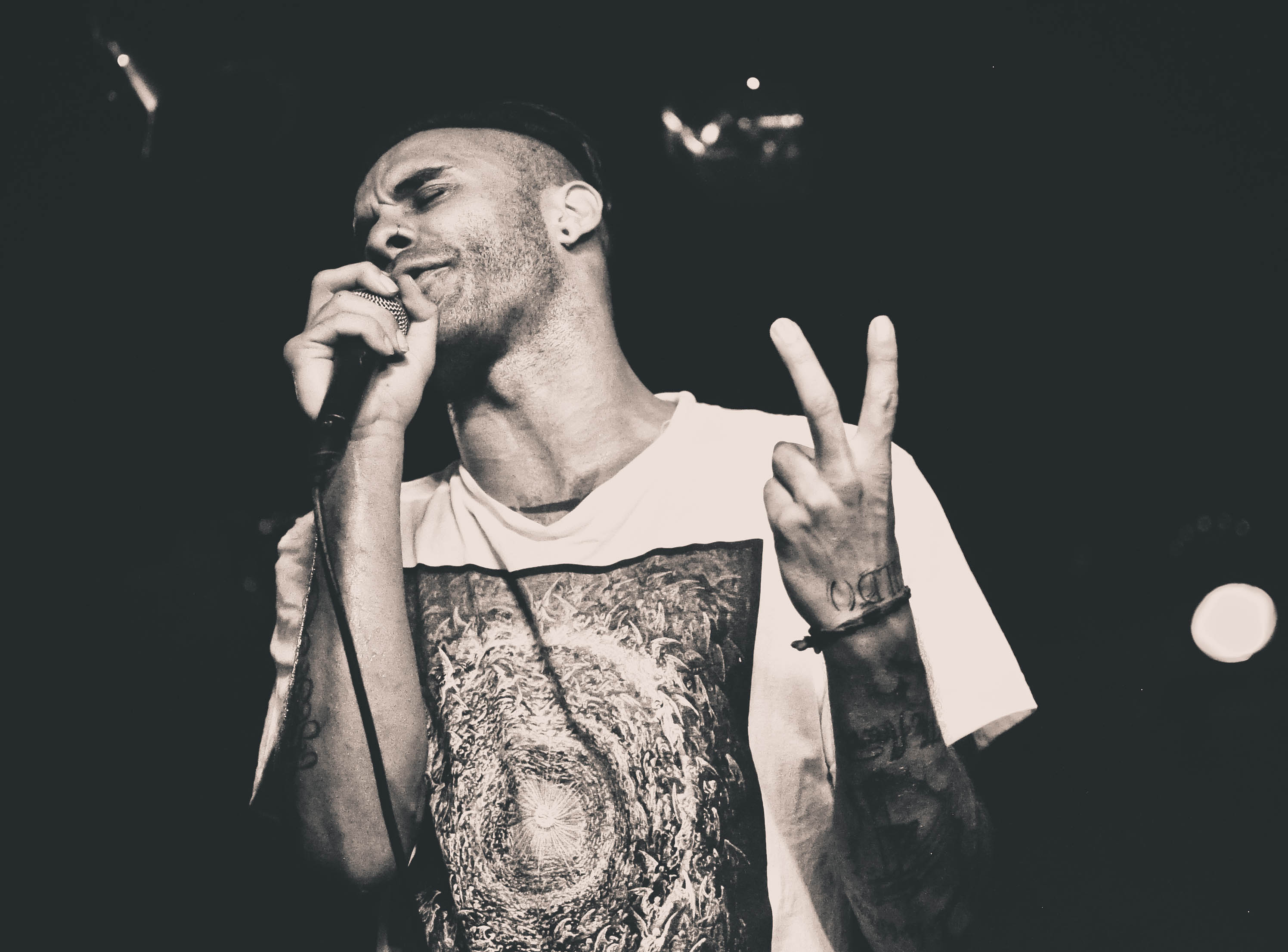 Letlive. singer Jason Aalon Butler performing with the band in 2011.